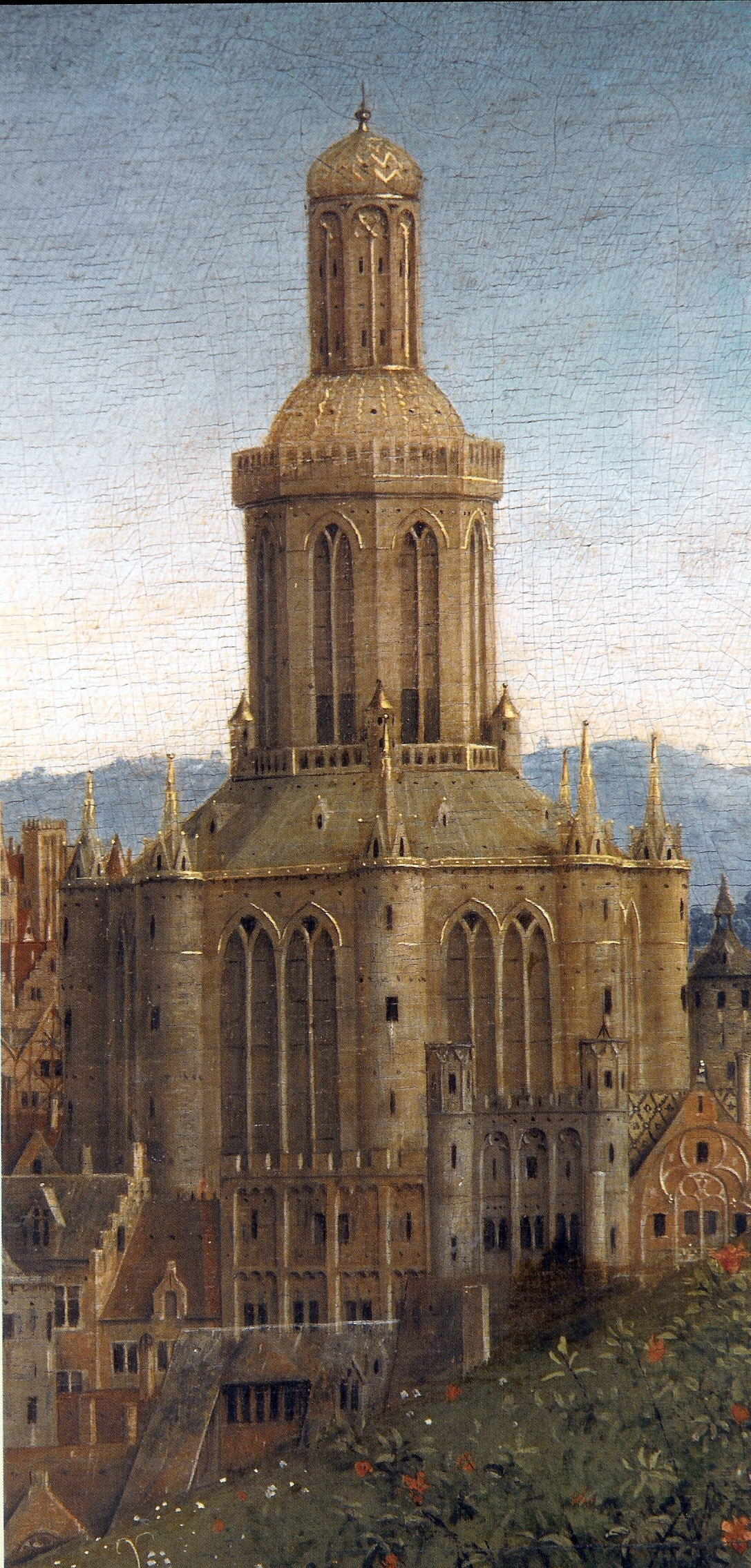 detail: church in the background